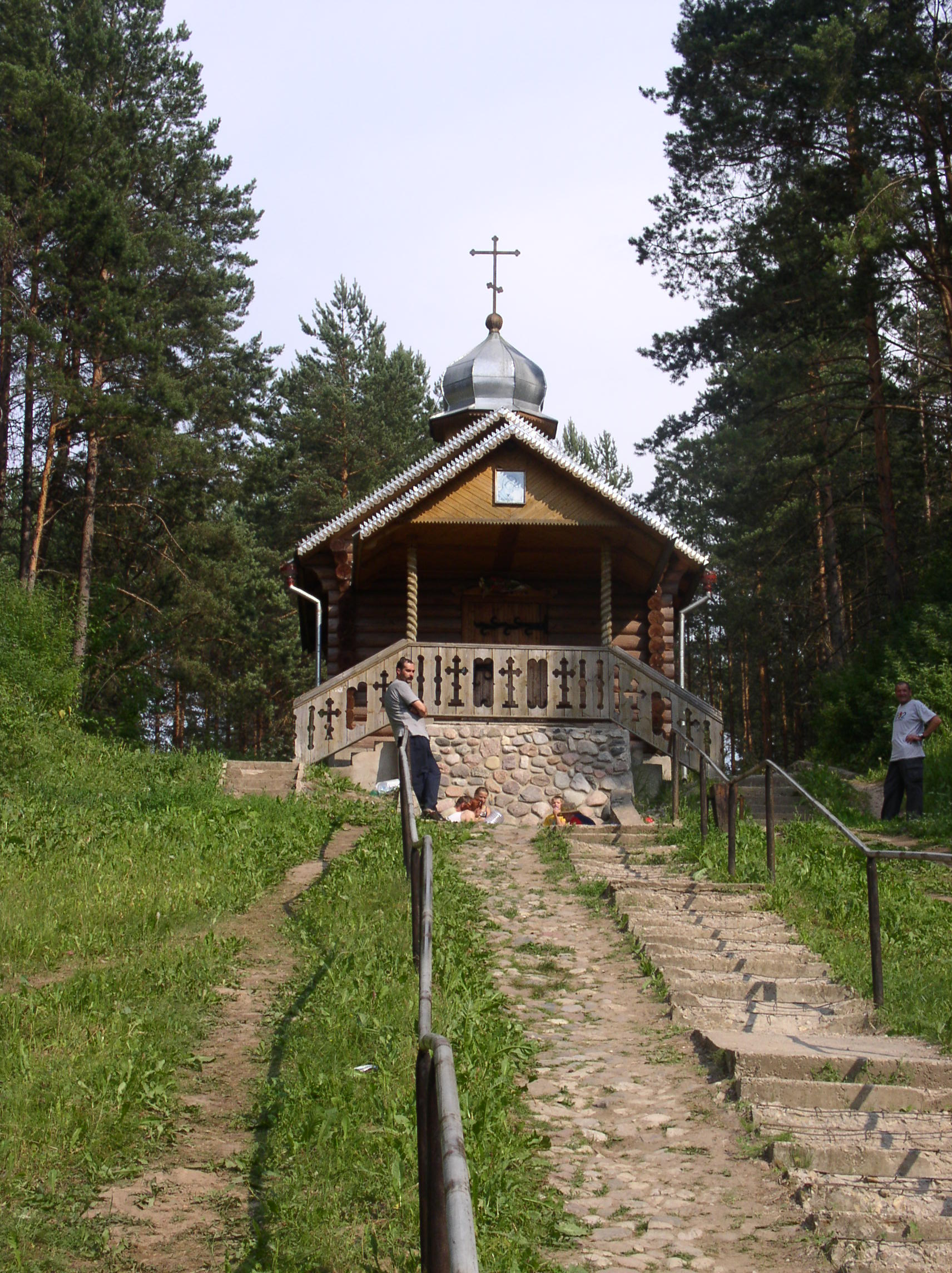 Chapel over Holy spring. Sebezh, Russia.